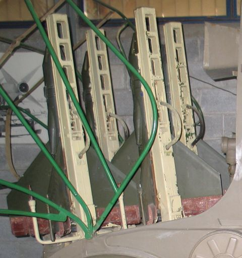 Description: 3M6 Shmel / AT-1 Snapper missile launcher in Batey ha-Osef Museum, Tel Aviv, Israel. 2005. Remark: Cropped from Image:GAZ-69-Shmel-batey-haosef-1.jpg. Source: Photo by me, User:Bukvoed.